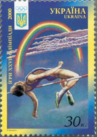 Stamp of Ukraine